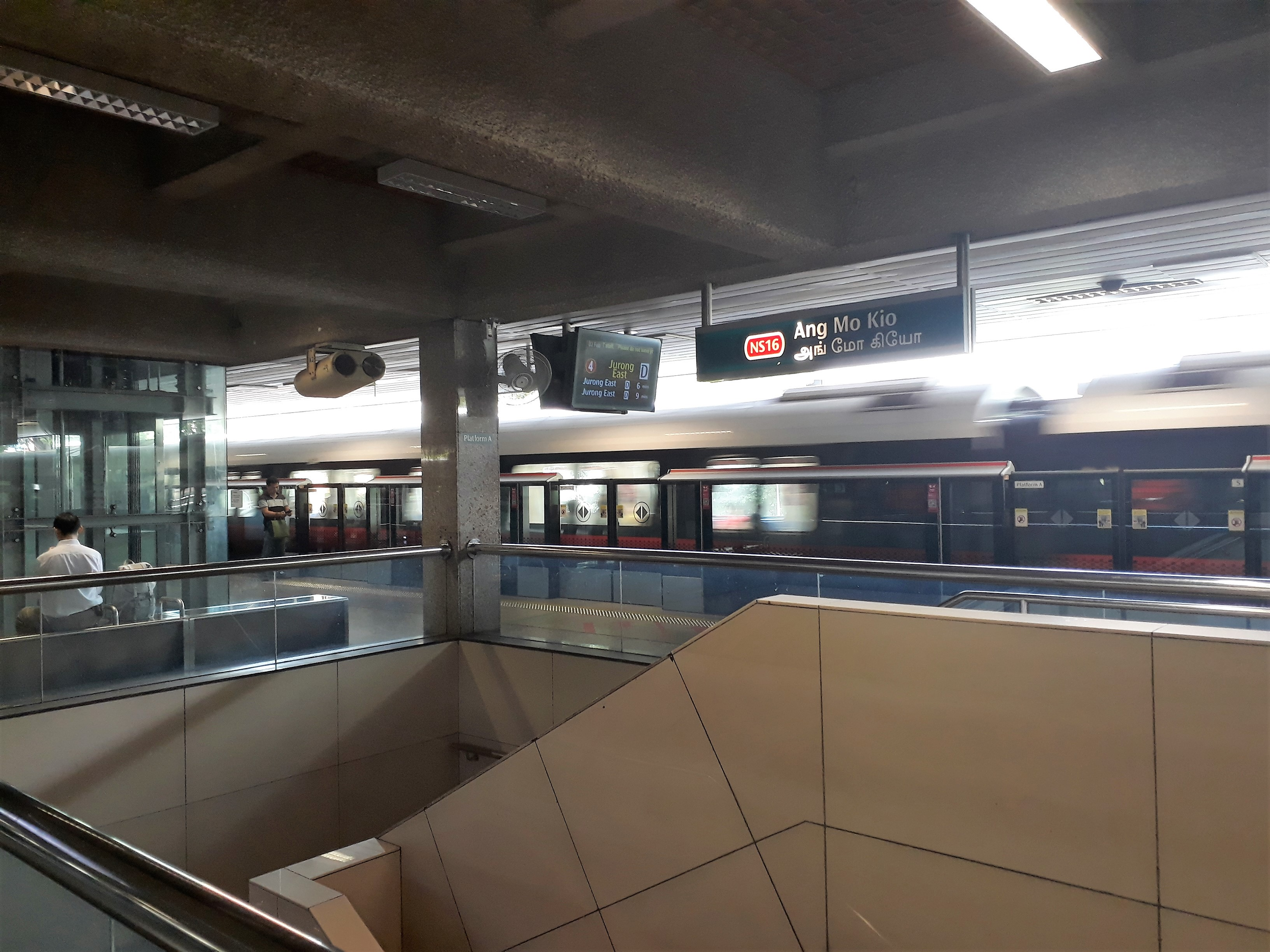 Platform A of Ang Mo Kio